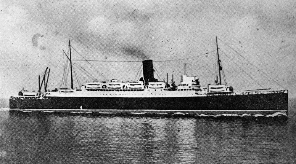 Passenger liner Empire Brent, which was formerly Letitia and was later renamed Captain Cook